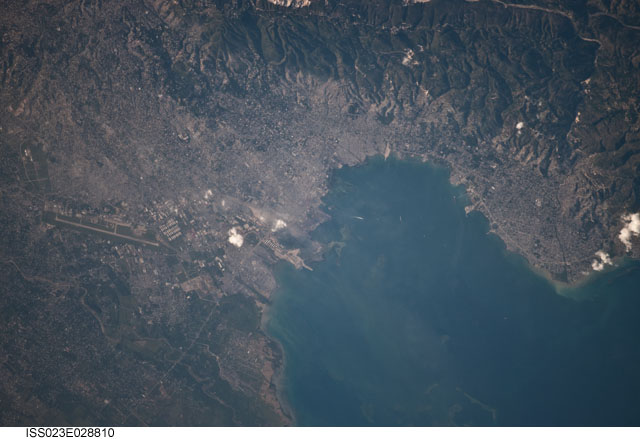 Astronaut Photo of Port-au-Prince, Haiti taken from the International Space Station (ISS) during Expedition 23 on April 22, 2010.